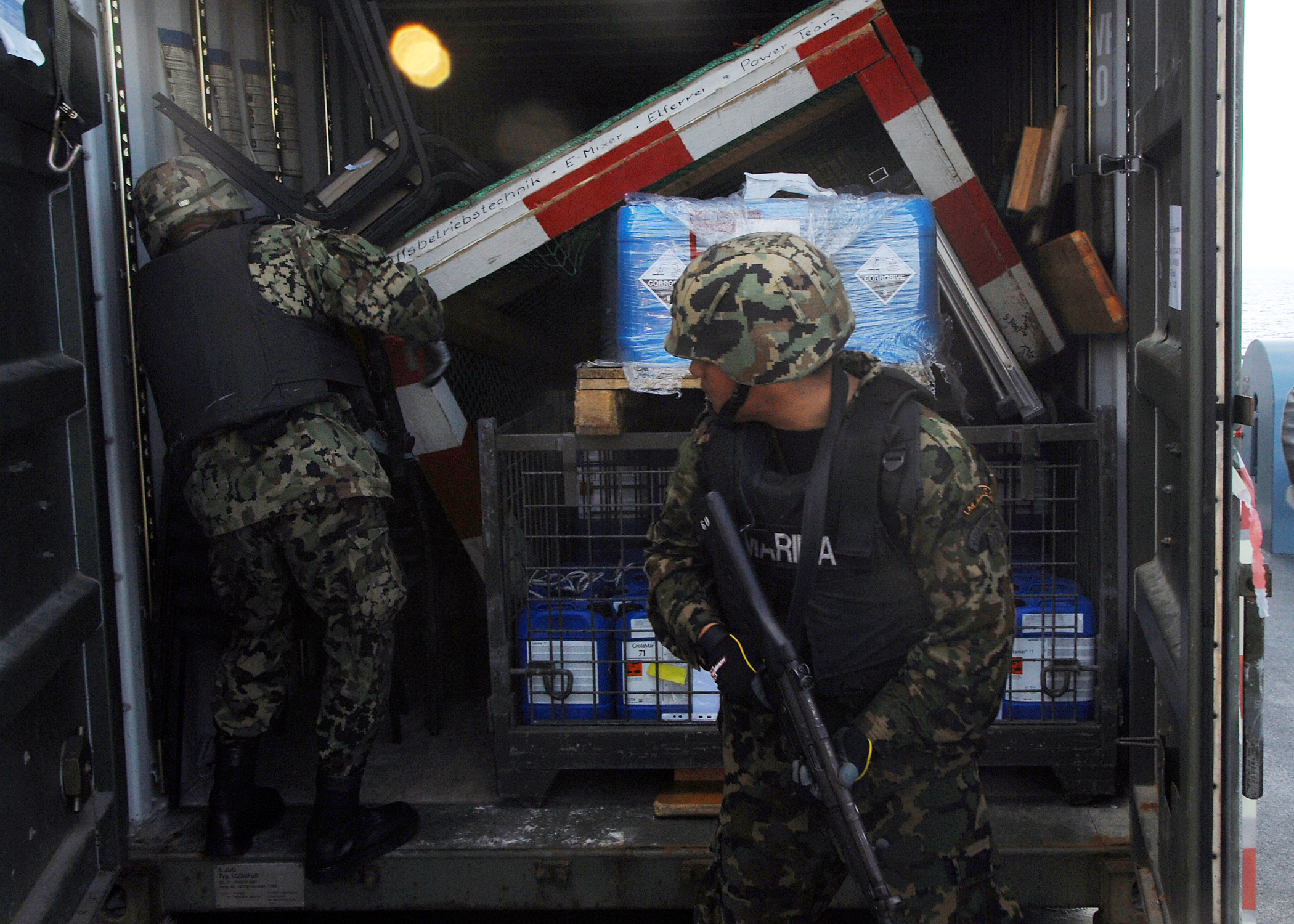 ATLANTIC OCEAN (April 26, 2009) A Mexican Navy boarding team searches the German Navy combat support ship Frankfurt am Main (A-1412) for prohibited items during the maritime interdiction operation exercise portion of UNITAS Gold. Maritime forces from Argentina, Brazil, Canada, Chile, Colombia, Ecuador, Germany, Mexico, Peru, U.S., and Uruguay are participating in UNITAS Gold, the 50th iteration of the annual multinational maritime exercise. UNITAS provides the opportunity to conduct and integrate joint and combined land, maritime, coast guard and air operations in a realistic training environment. The exercise took place April 20-May 5 off the coast of Florida. (U.S. Navy photo by Mass Communication Specialist 2nd Class Alan Gragg/Released)